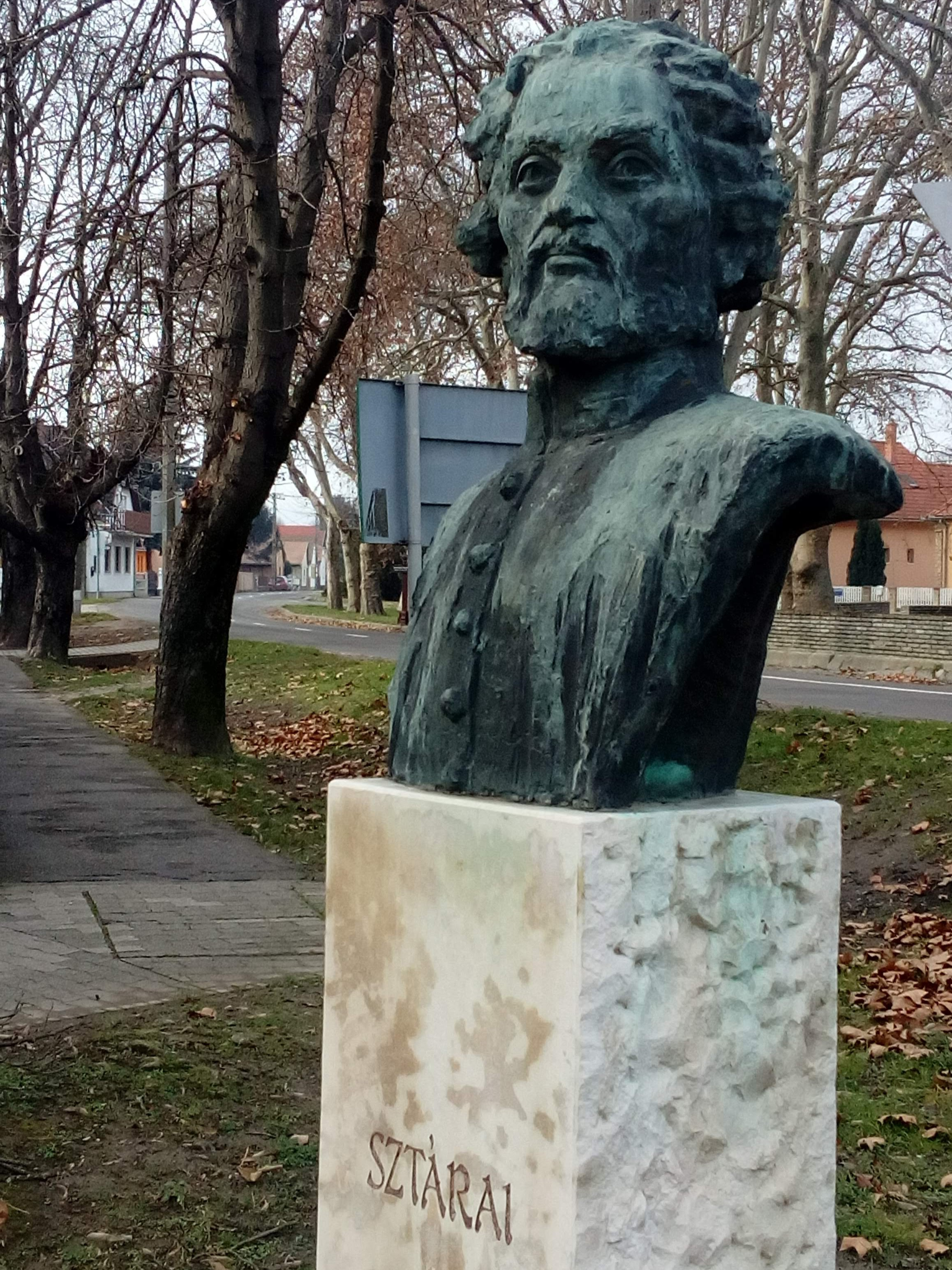 Statue of Mihály Sztárai (Michael Starin, † 1575) hungarian reformator in Harkány, Baranya county, Hungary)